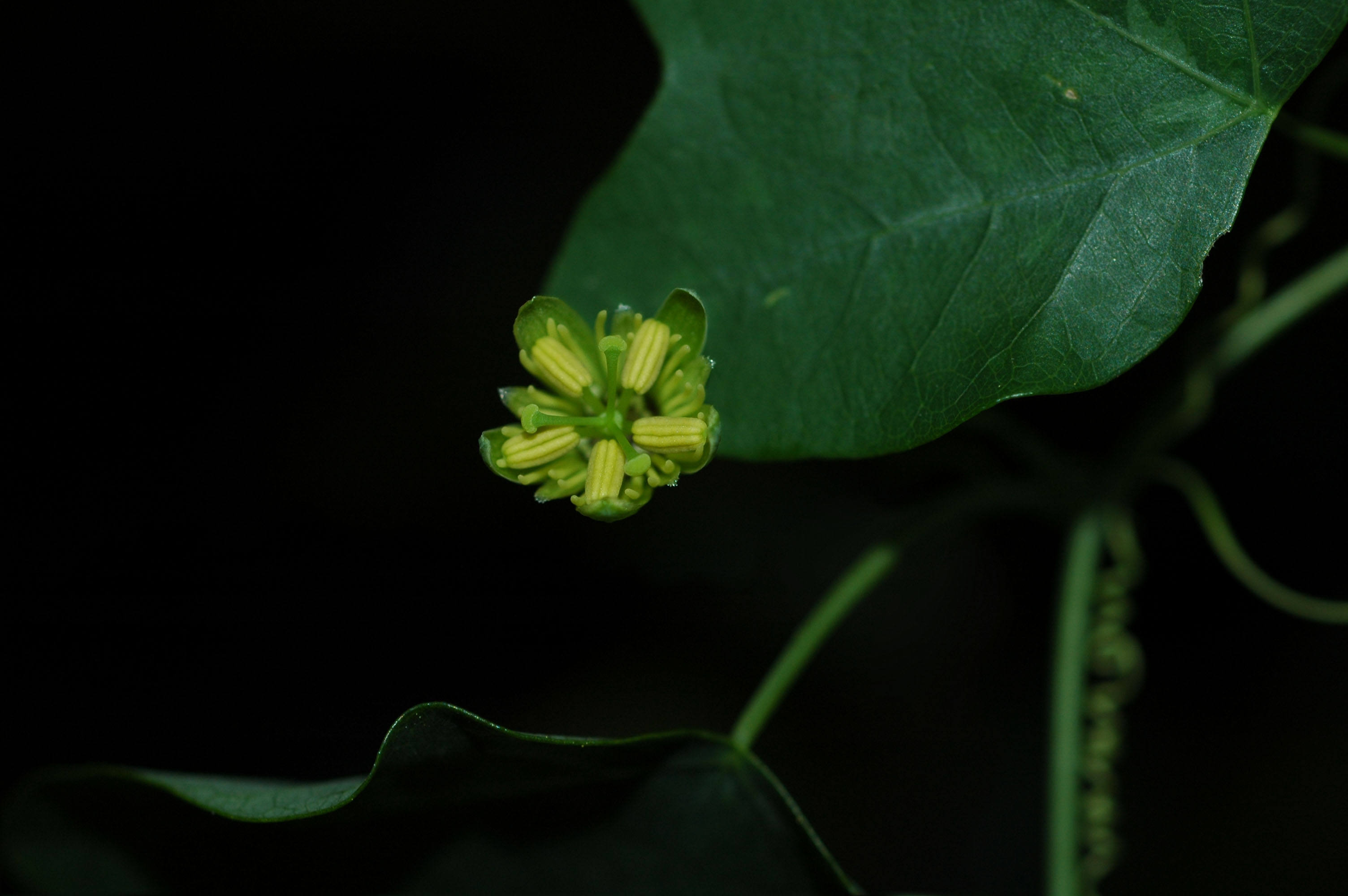 Yellow Passion Flower